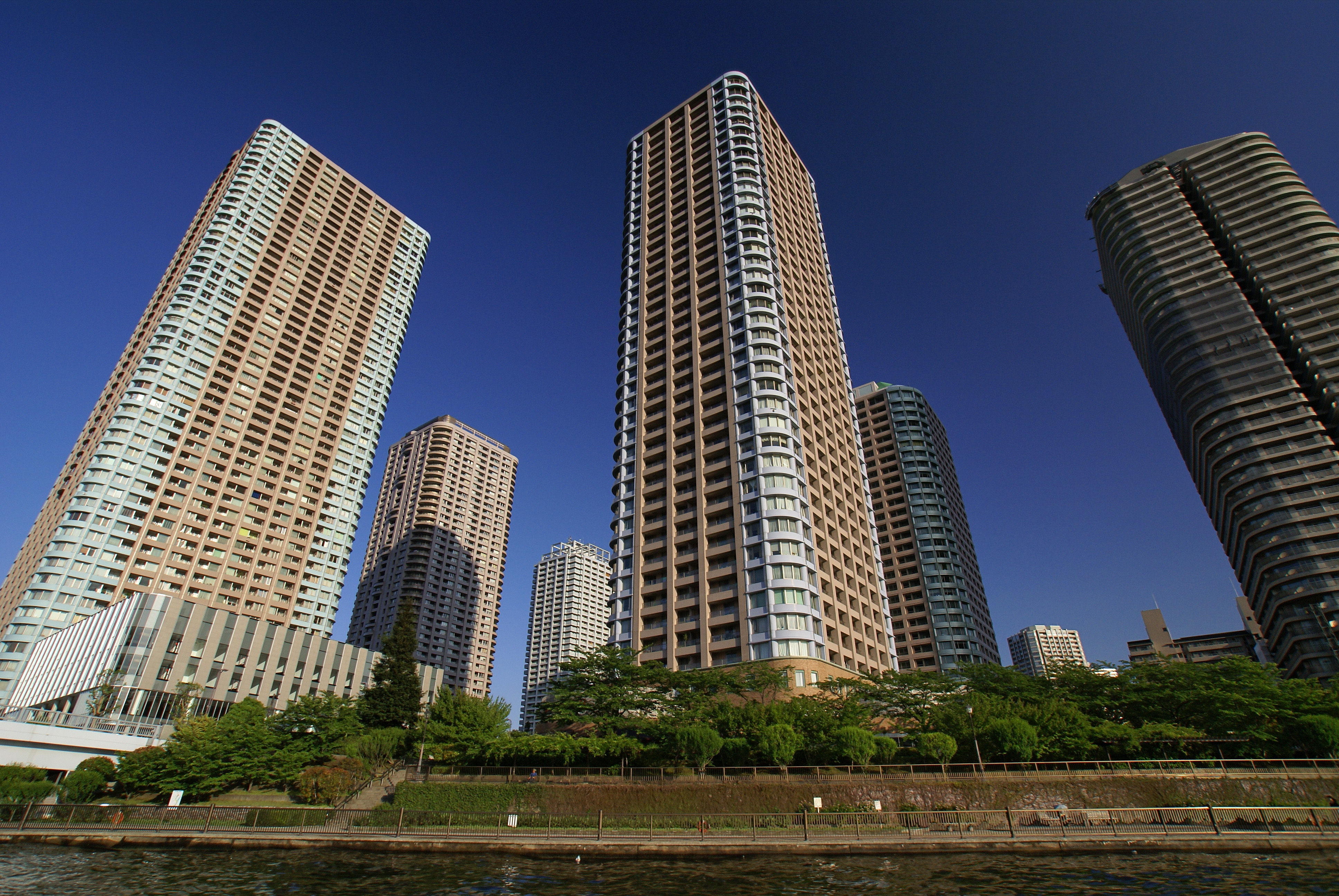 River City 21 in Chuo-ku, Tokyo, Japan